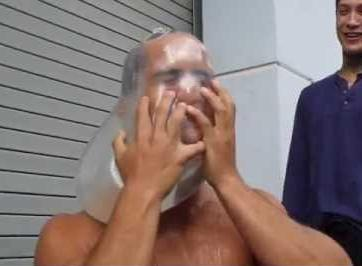 A man taking the condom challenge.